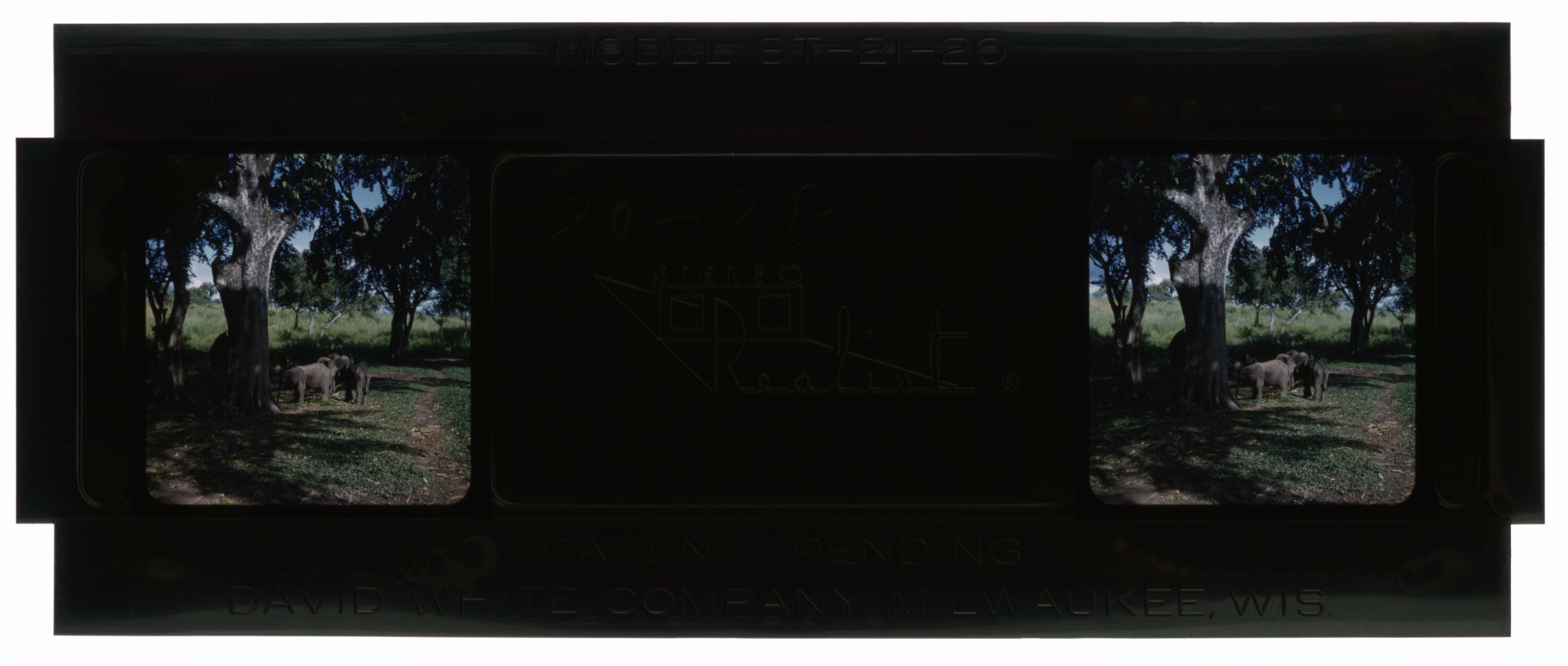 Creator: Waldo Schmitt Local number: SIA2012-0404 Summary: RU 007231, Box 128, SubBox June 23, 1955; Stereoscopic image taken while Waldo Schmitt was collecting for the Smithsonian during the Smithsonian-Bredin Belgian Congo Expedition, 1955. Dates: 1955 Repository: Smithsonian Institution Archives Related blog post: Collecting in 3-D View more collections from the Smithsonian Institution.